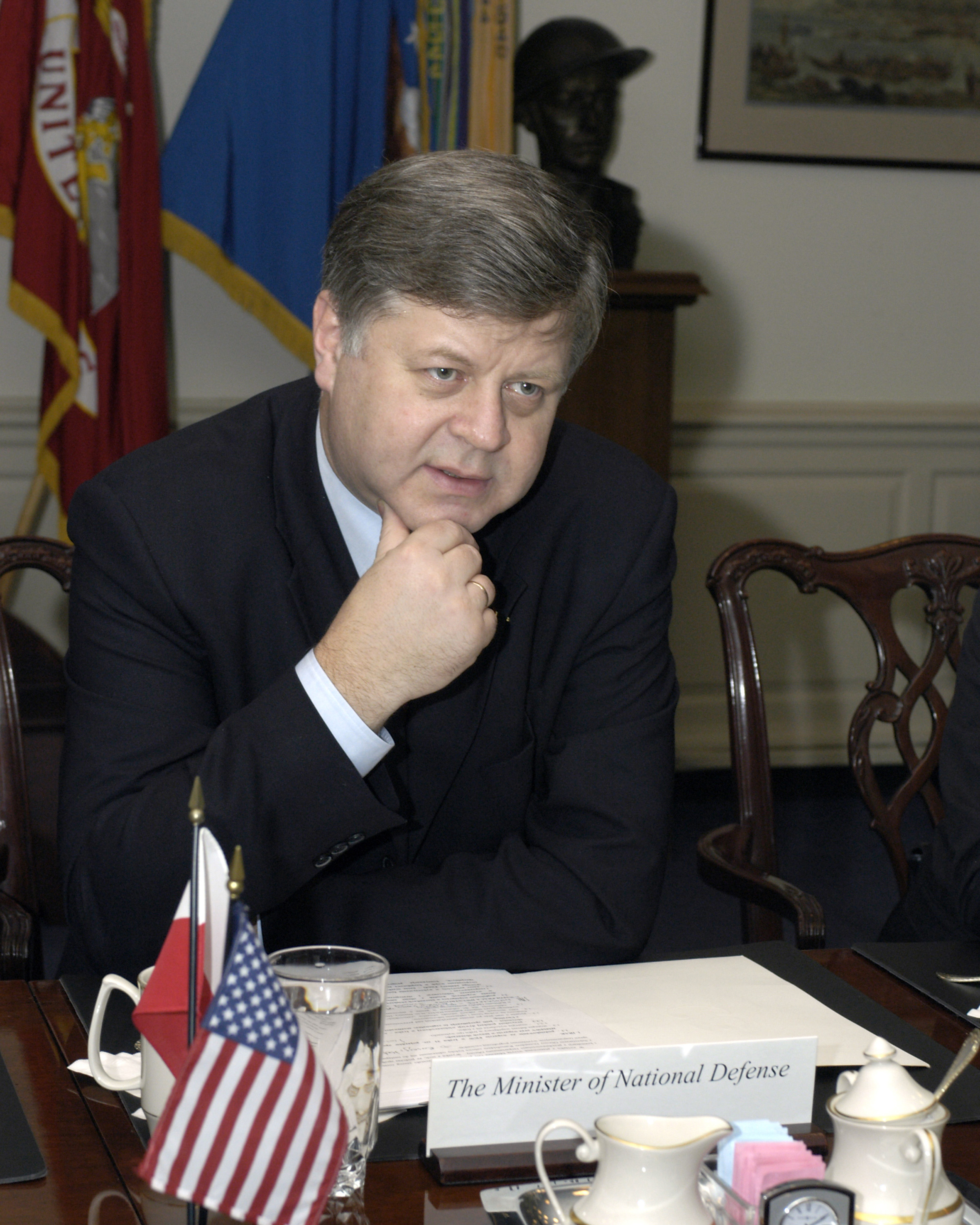 Poland's Minister of National Defense Jerzy Szmajdzinski meets with Secretary of Defense Donald H. Rumsfeld in the Pentagon on February 8, 2005. Szmajdzinski and Rumsfeld are meeting to discuss defense issues of mutual interest.